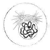 Diagram showing the changes which occur in the centrosomes and nucleus of a cell in the process of mitotic division. (Schäfer.) II, prophase. Prophase der Zellteilung